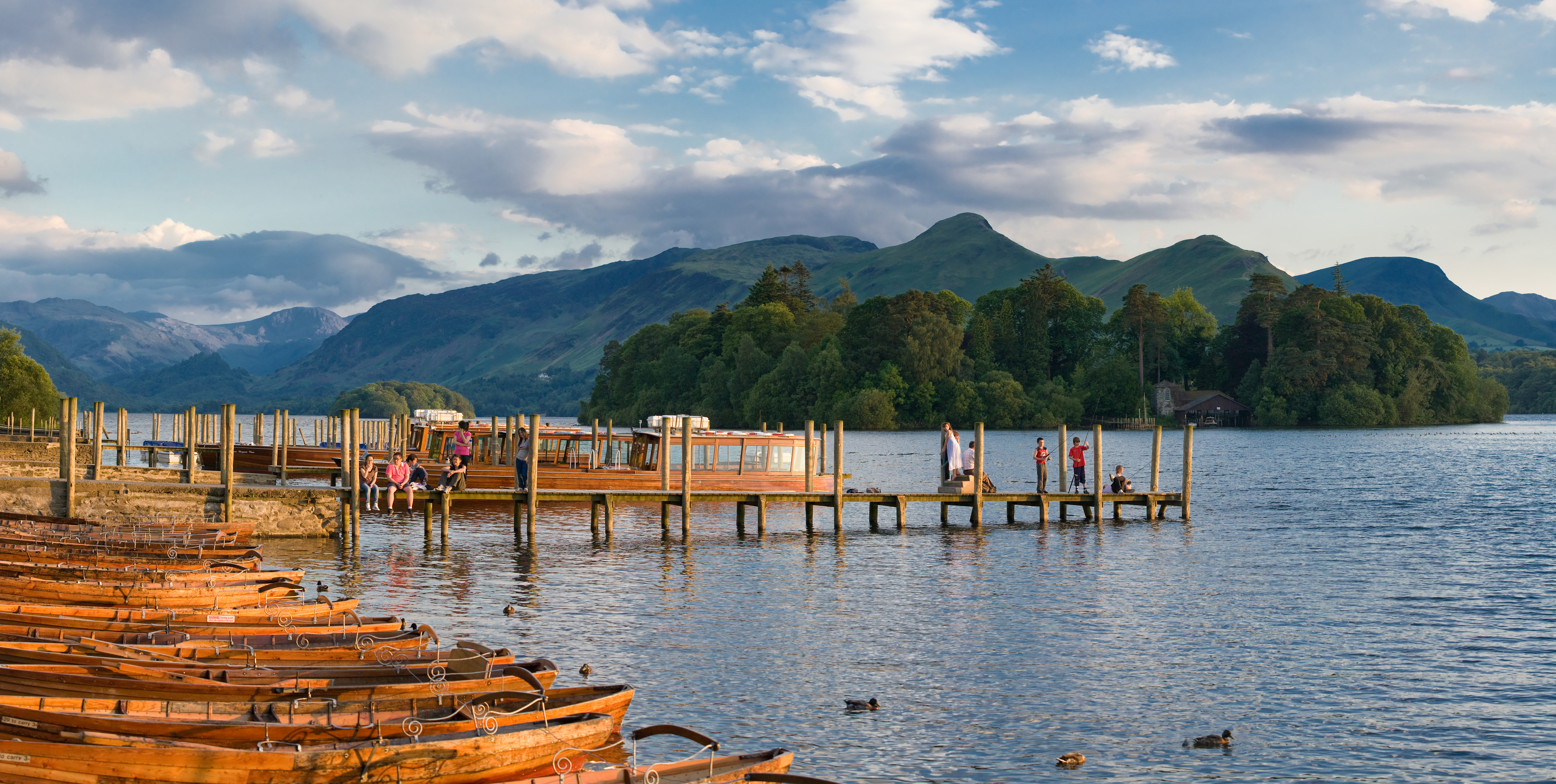 The pier near Keswick on Derwent Water in the Lake District, England.